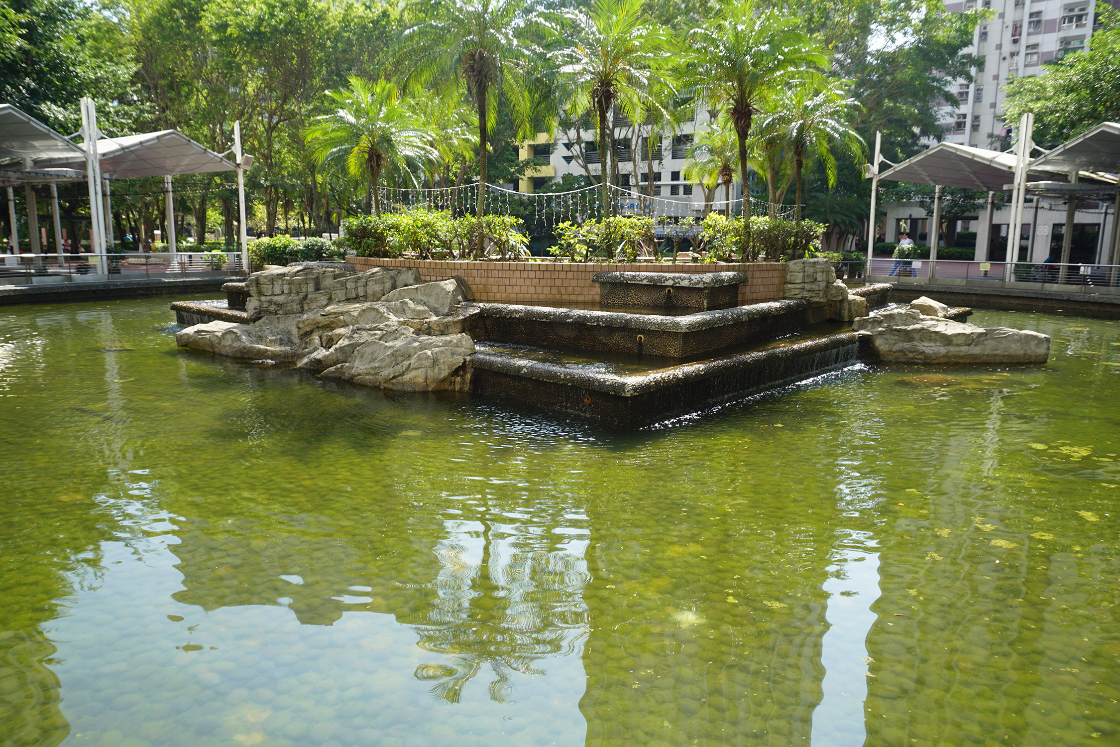 Yan Shing Court in Fanling, Hong Kong.